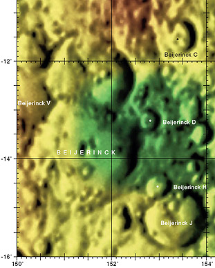 Color-coded LAC 85 from USGS Digital Lunar Atlas